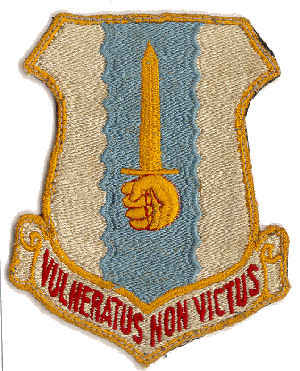 Emblem of the 48th Fighter-Bomber Wing 1952 Source: United States Air Force